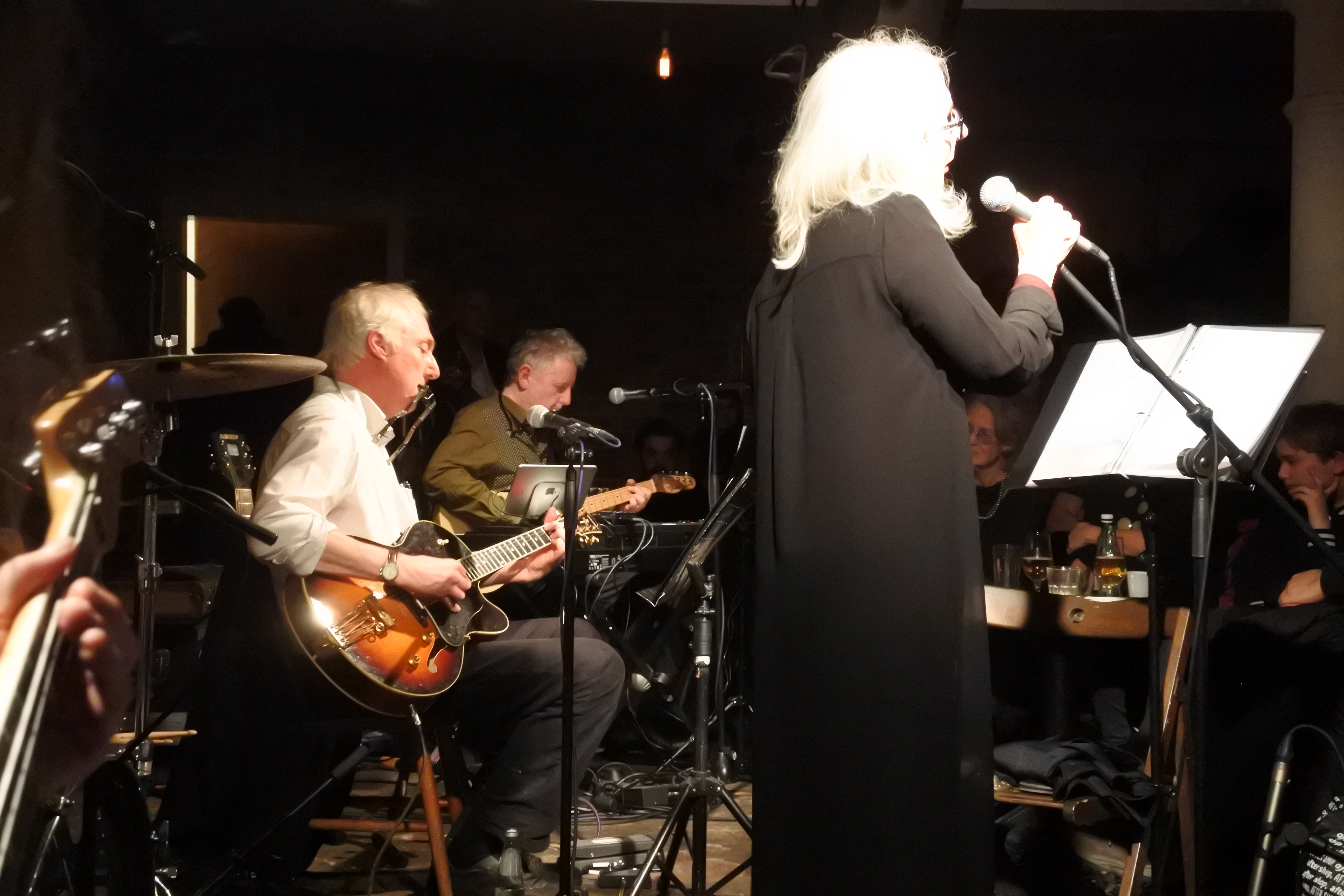 Slapp Happy in concert at the Café Oto, London, 11 February 2017